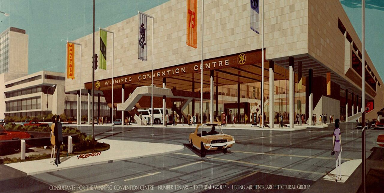 Architectural rendering of Winnipeg Convention Centre